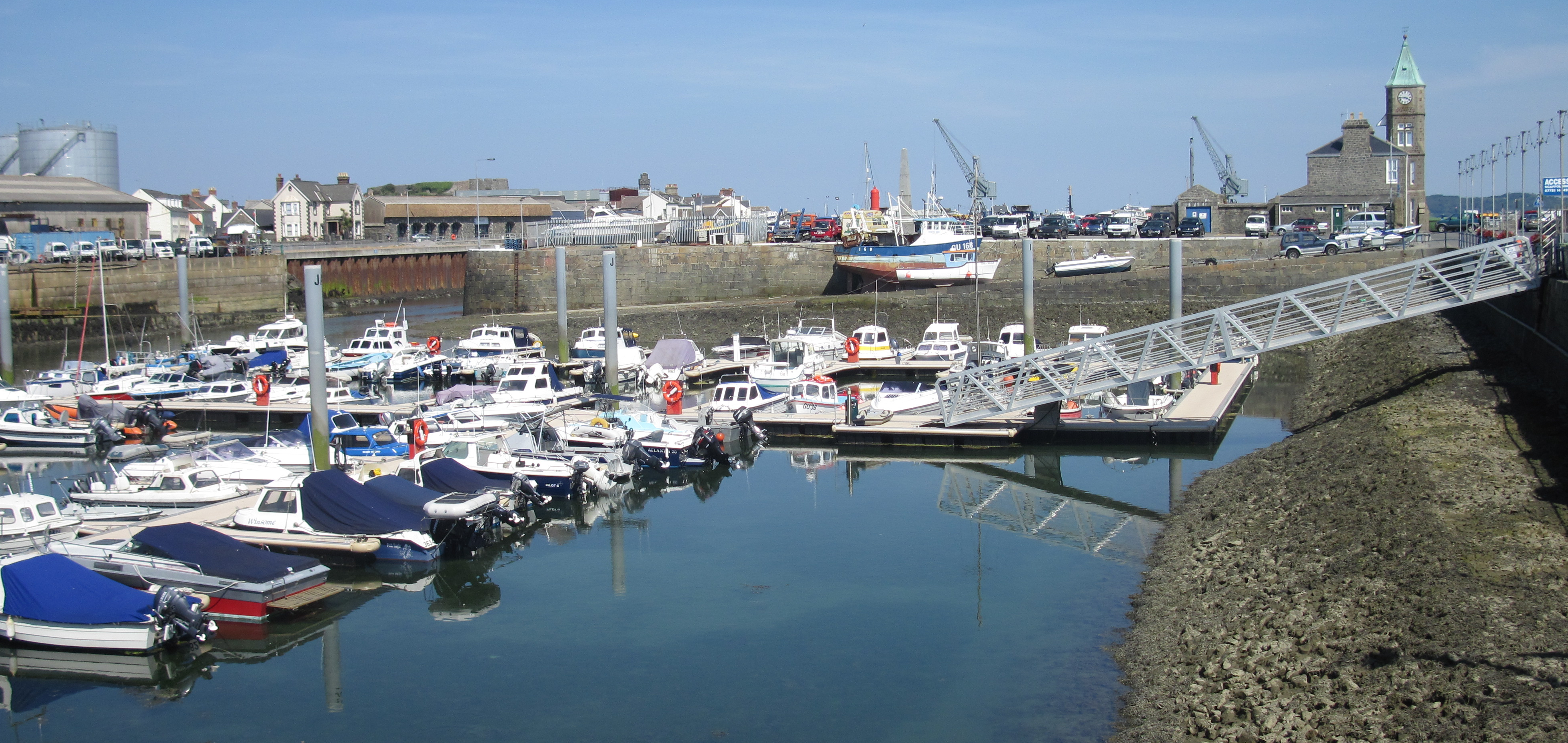 Guernsey, July 2011: Saint Sampson harbour